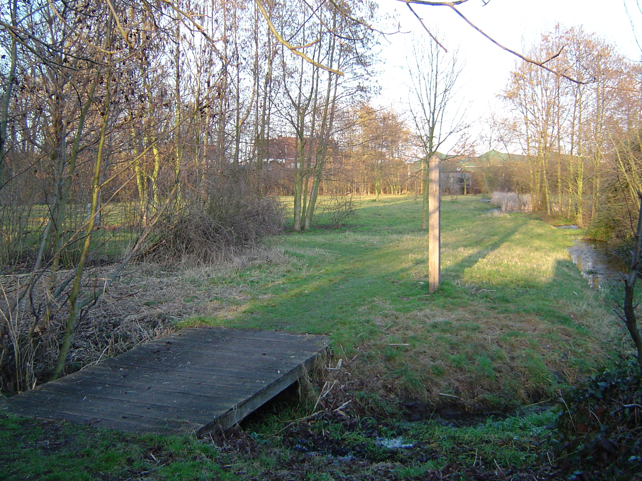 Entrance of the Wijmelbroek park